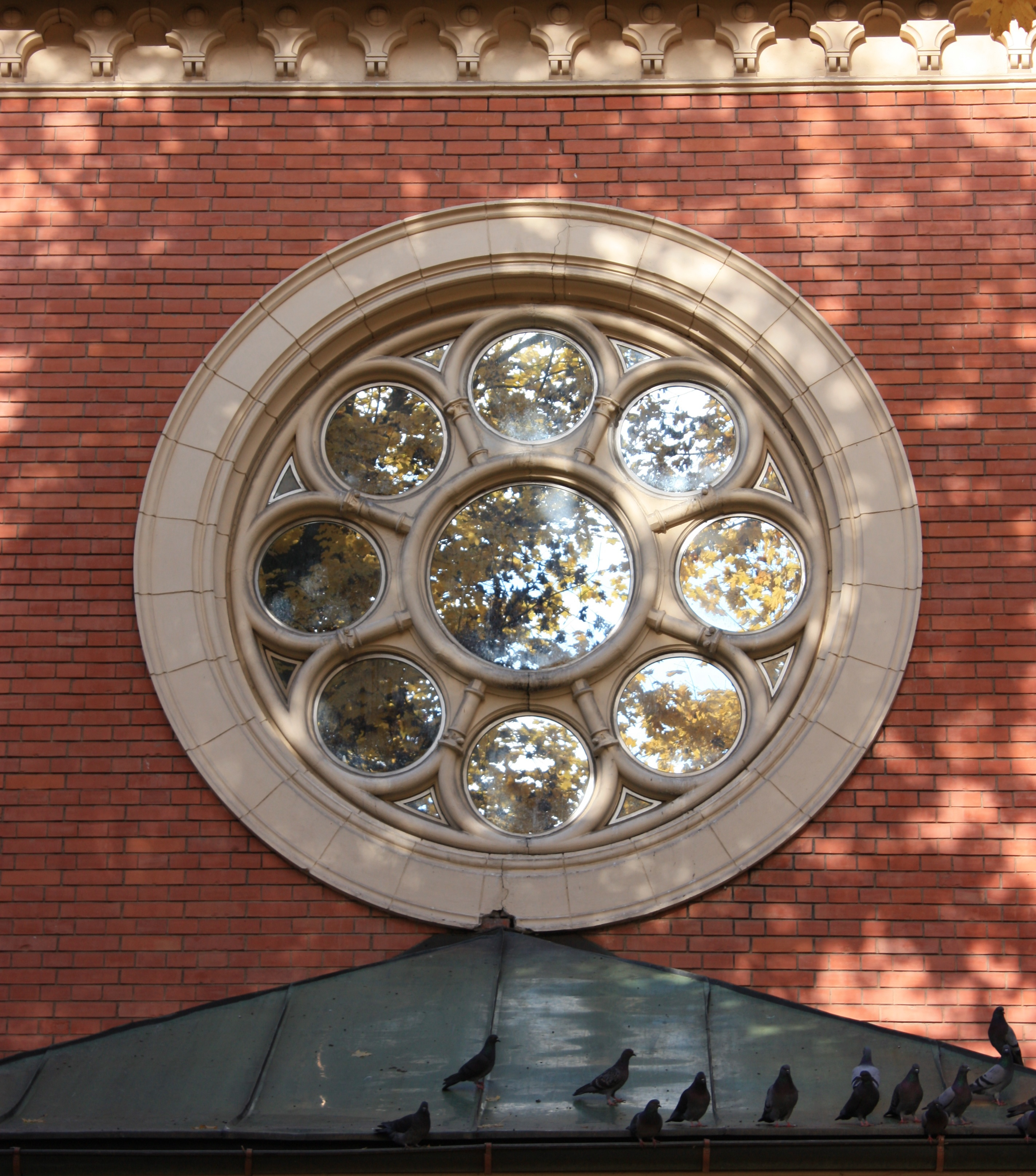 Lutherian church - windows Locality: Stadtpark Community:Villach